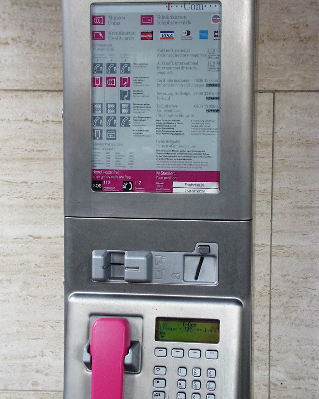 This is the newest type of German payphone from the market leader T-Com. It accepts coins and telephone cards as well as credit cards.